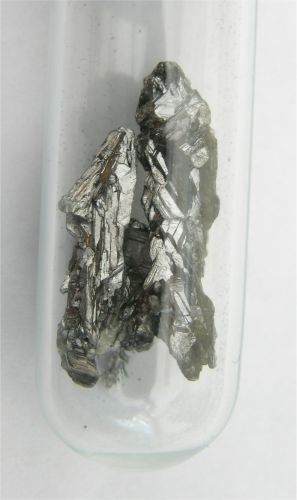 Description Elemental arsenic — mineral specimen.